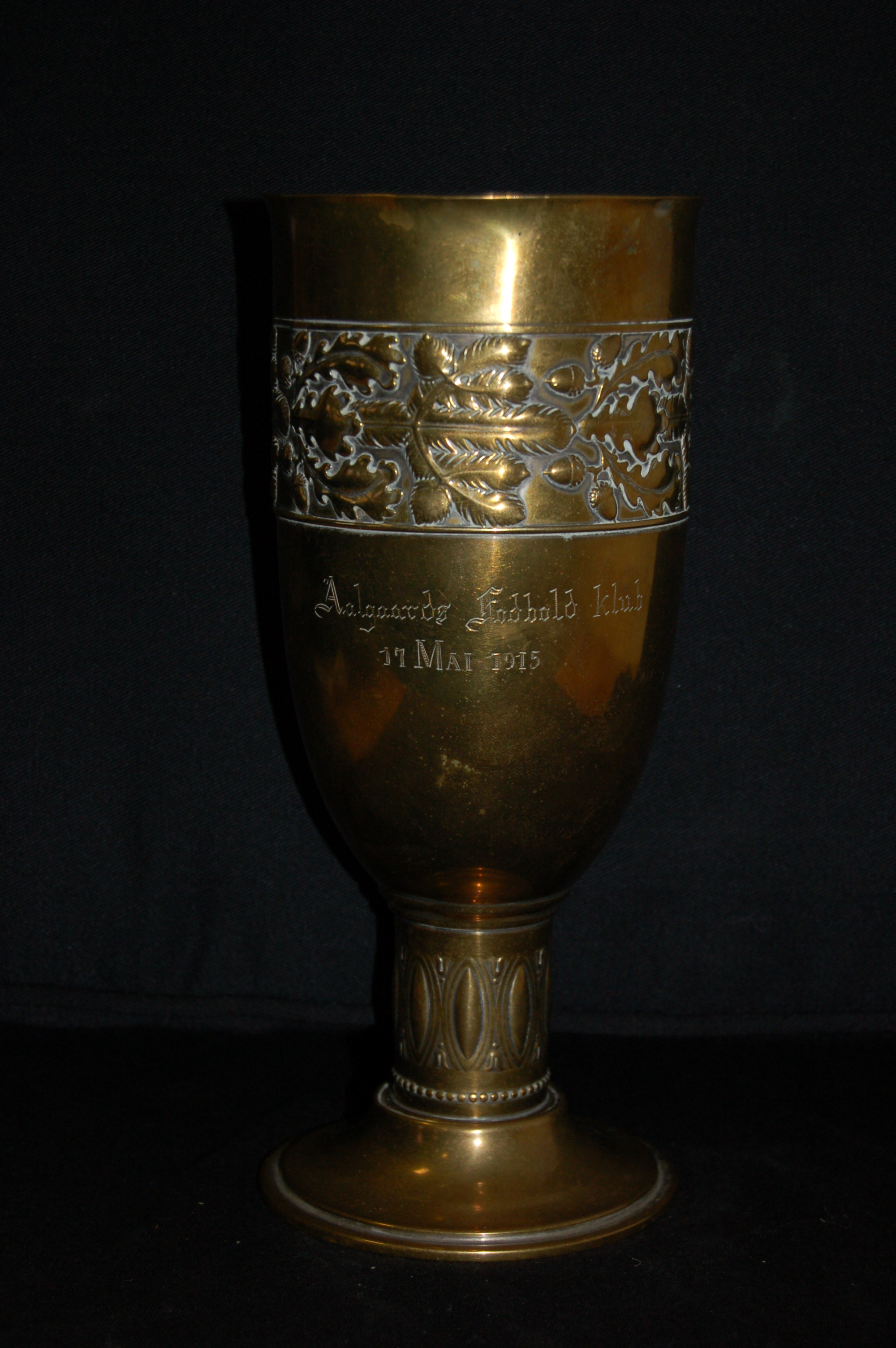 The cup found after Ålgård Fotballklubb celebrated their 50th anniversary in 1975. It shows that the footballclub was older than 1925.